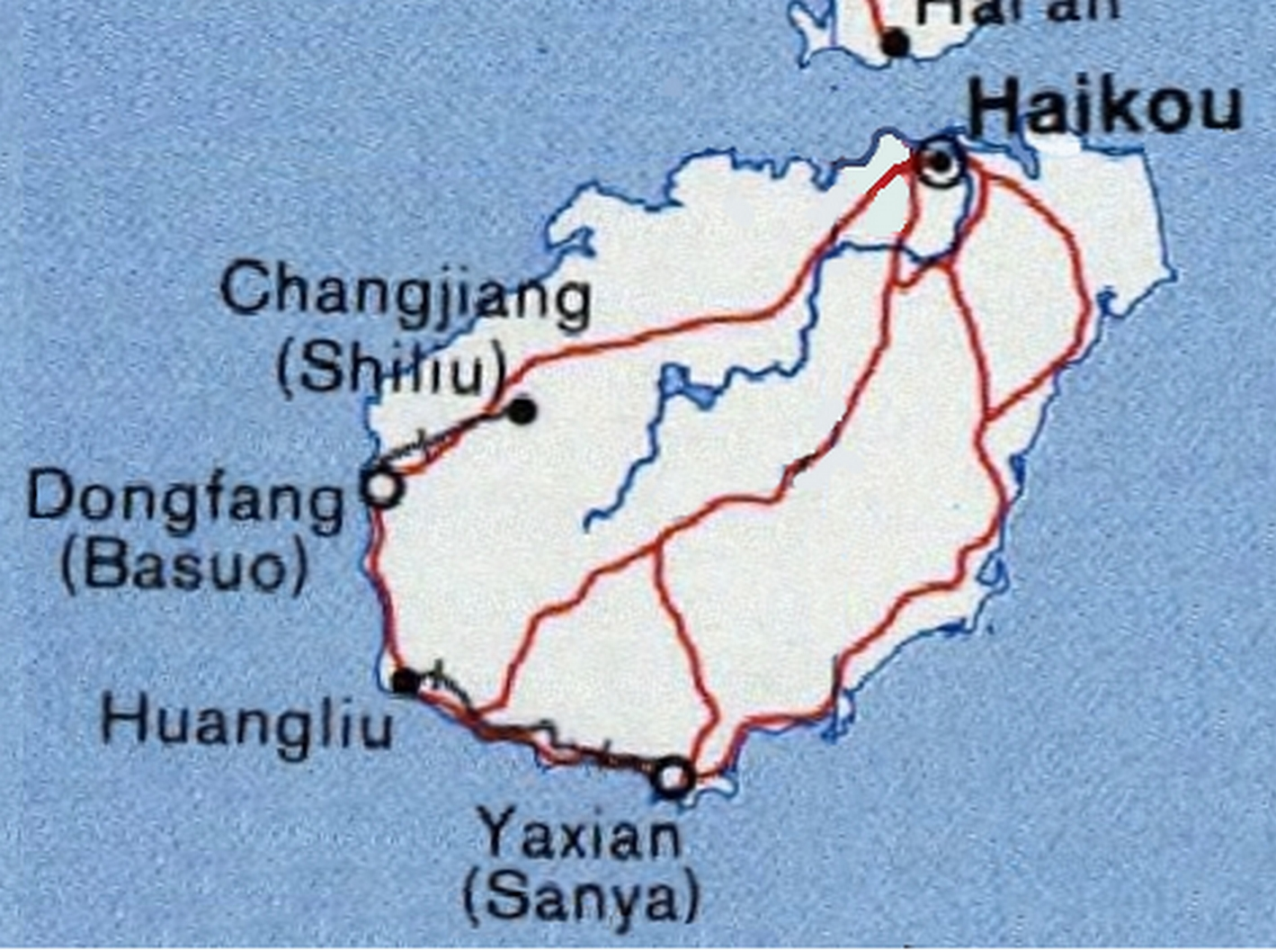 Map of Hainan Island — in Hainan Province, Southeast China.